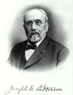 Portrait of Joseph E. Patterson